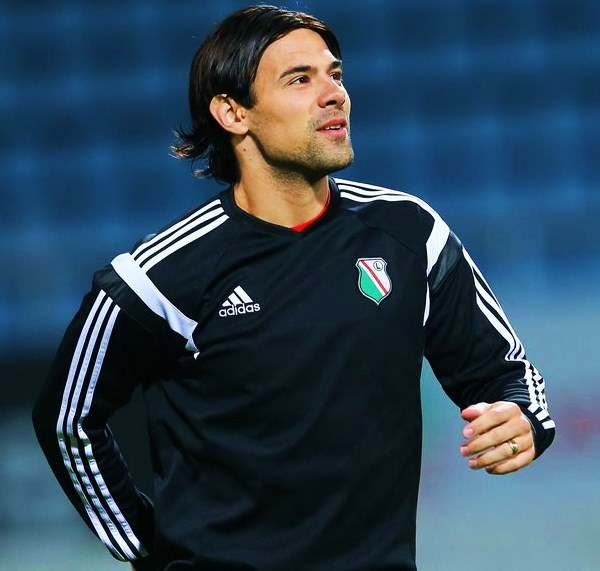 Ivica Vrdoljak